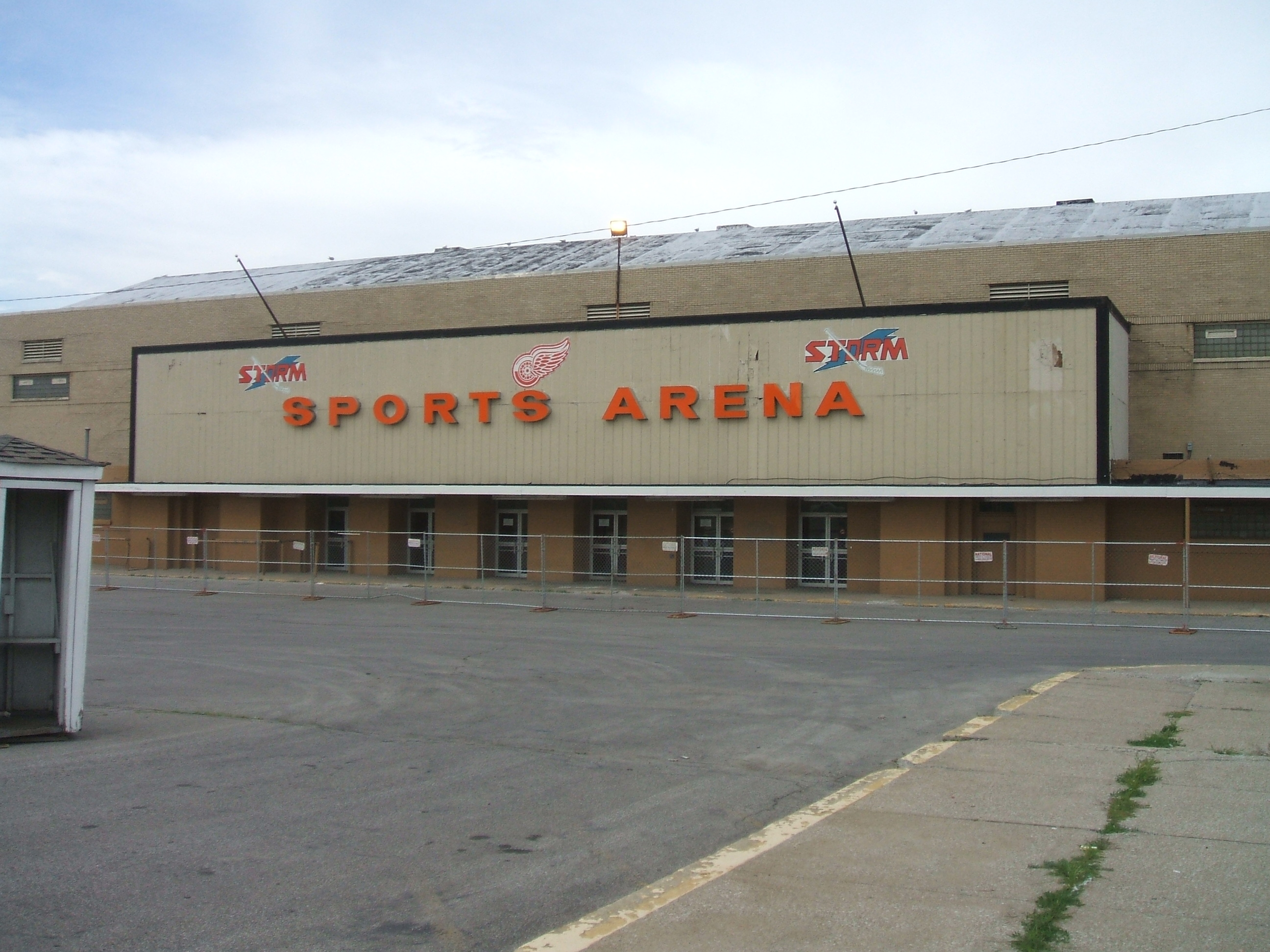 TSA - Fenced